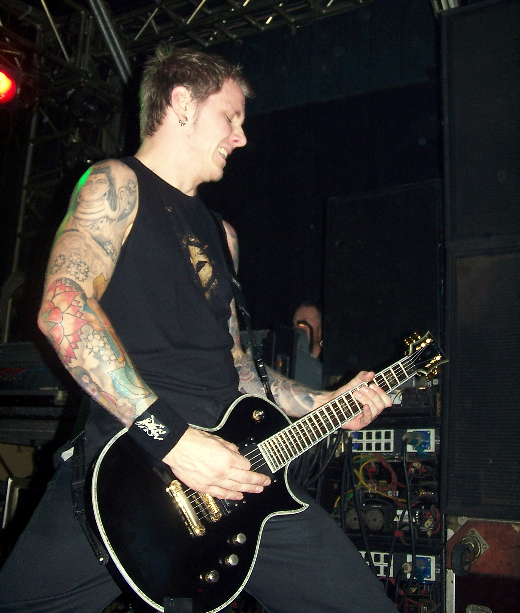 Sebastian Grund of Maroon at Hell On Earth 2006 in München. 2006, September 28